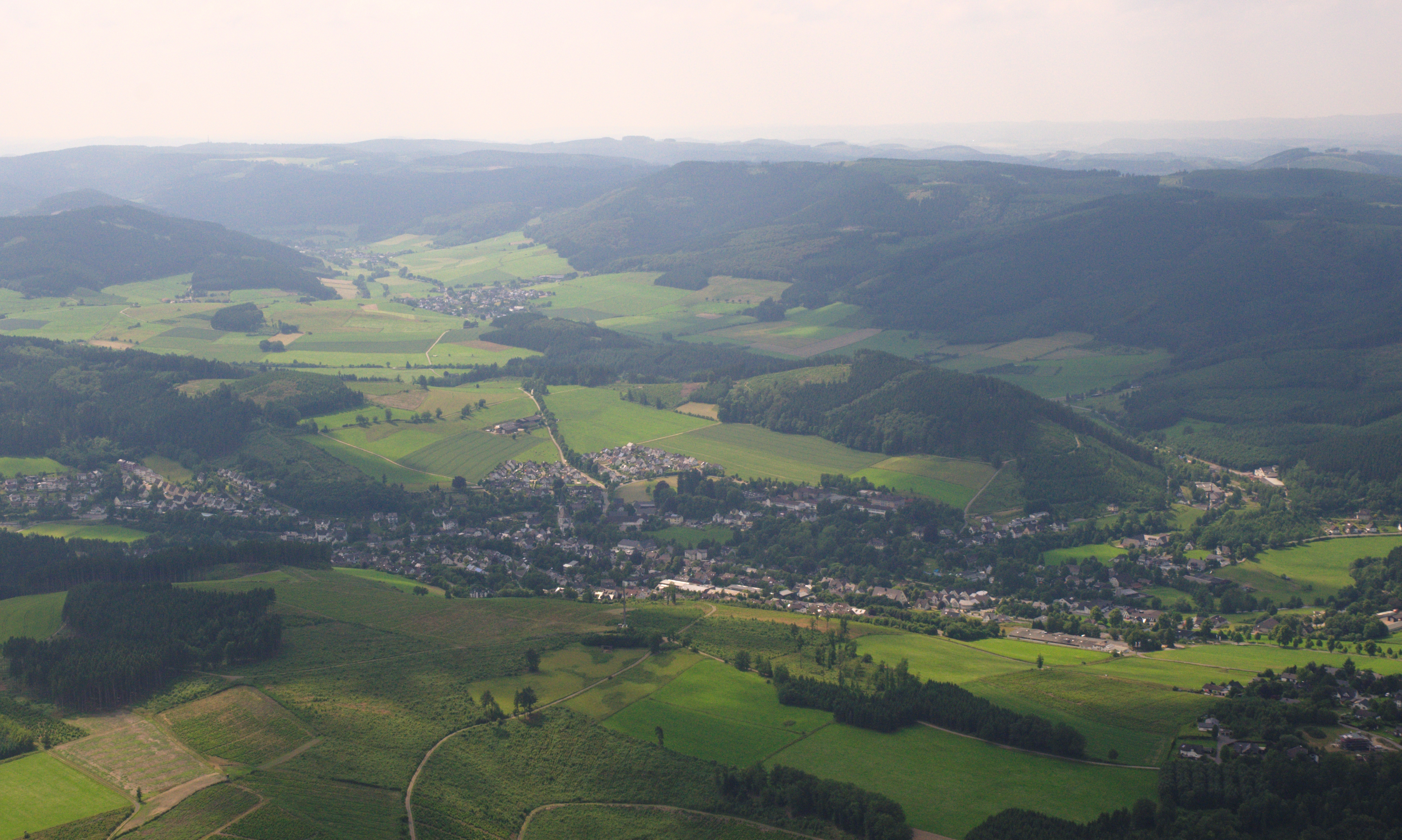 Fotoflug Sauerland-Ost: Eslohe, darüber der Steltenberg; im Hintergrund Niedersalwey; rechts der Höhenzug Homert. The making of this document was supported by the Community-Budget of Wikimedia Germany.